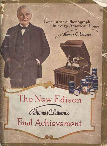 "I want to see a Phonograph in every American home". Advertisement for Edison (cylinder) phonograph, showing Thomas A. Edison staning in front of "Amberola" model phonograph